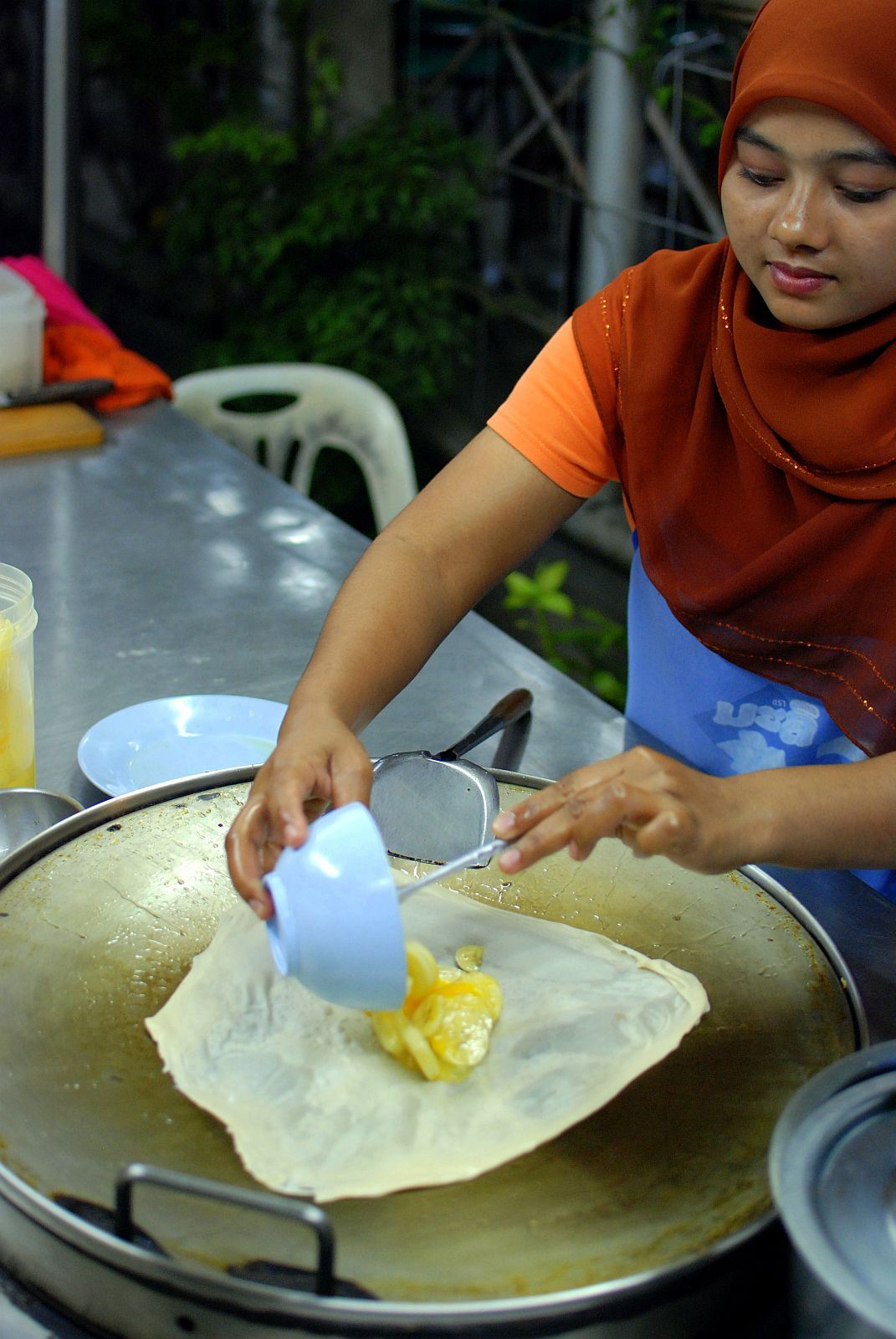 Roti kluai khai is Thai for a roti with banana and egg. Banana slices and a beaten egg are fried inside a roti, then cut and served with condensed sweetened milk and sugar. It is traditionally made by Thai Muslims. This roti stand is in Chiang Mai on the corner of Arak road and Intra Warorot road.